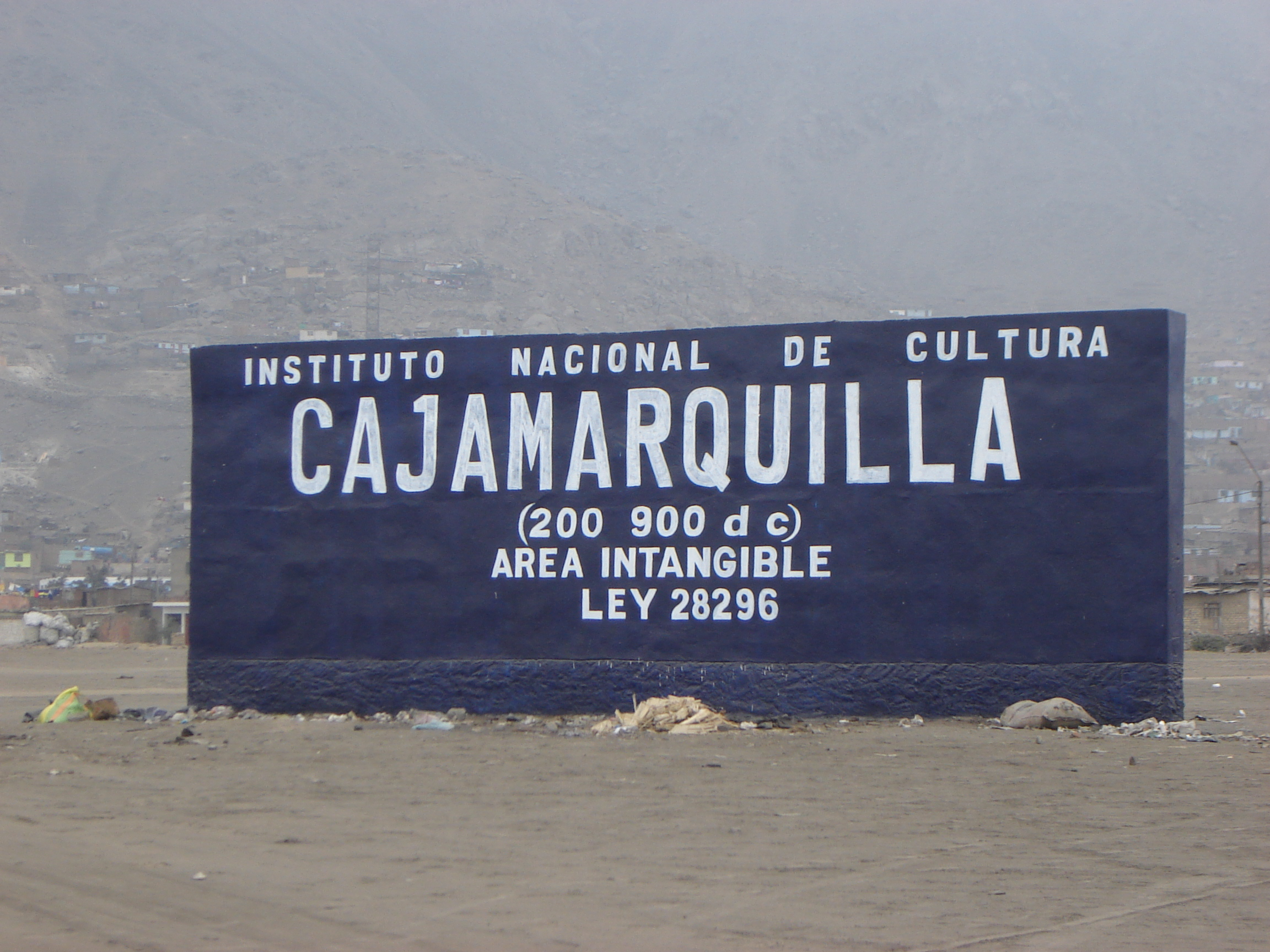 INC (National Institute of Culture) sign at Cajamarquilla archaeological site on the outskirts of Lima, Peru.